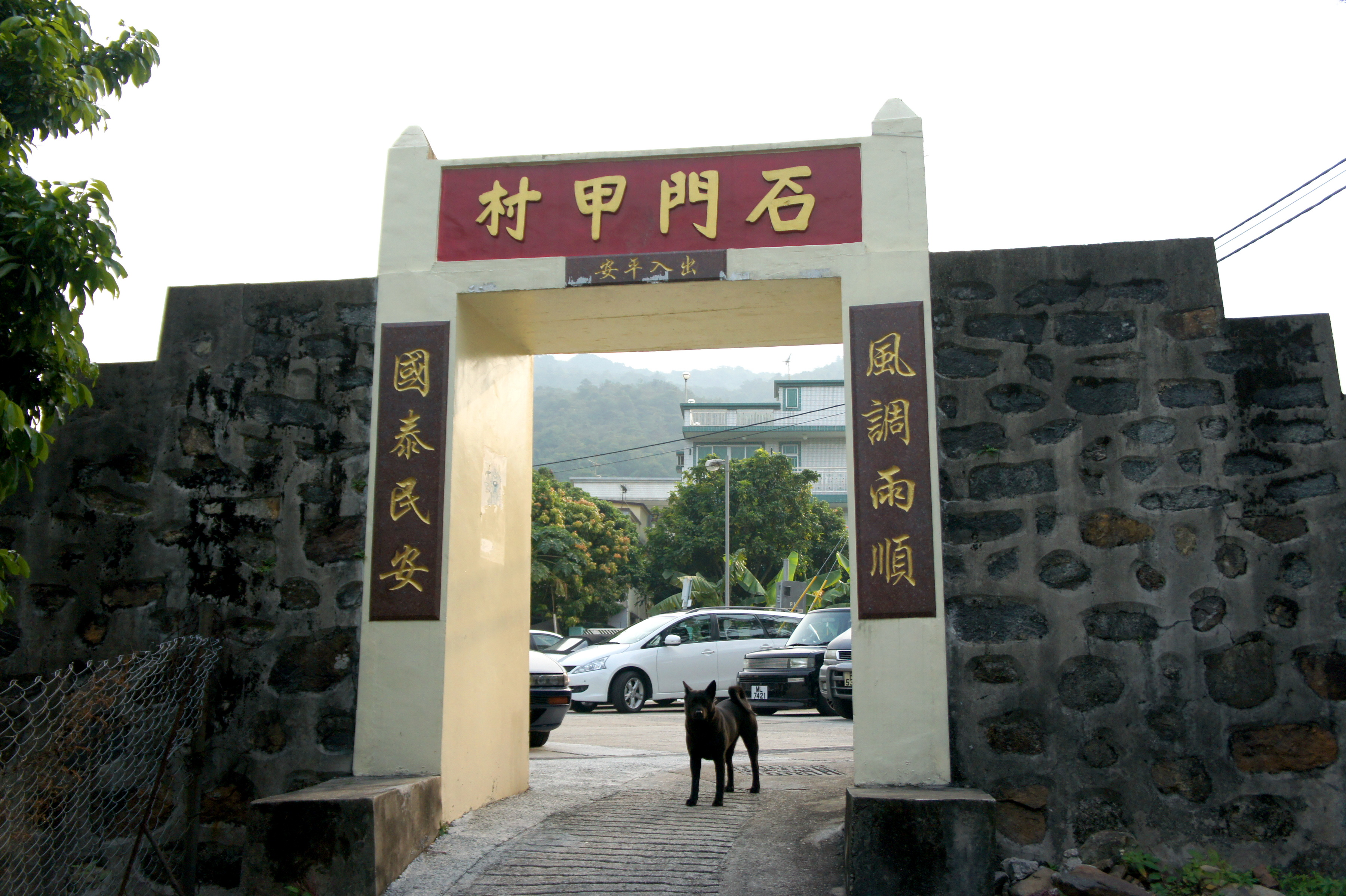 Shek Mun Kap village, Feng Shui Wall, Tung Chung, Lantau Island, Hong Kong.